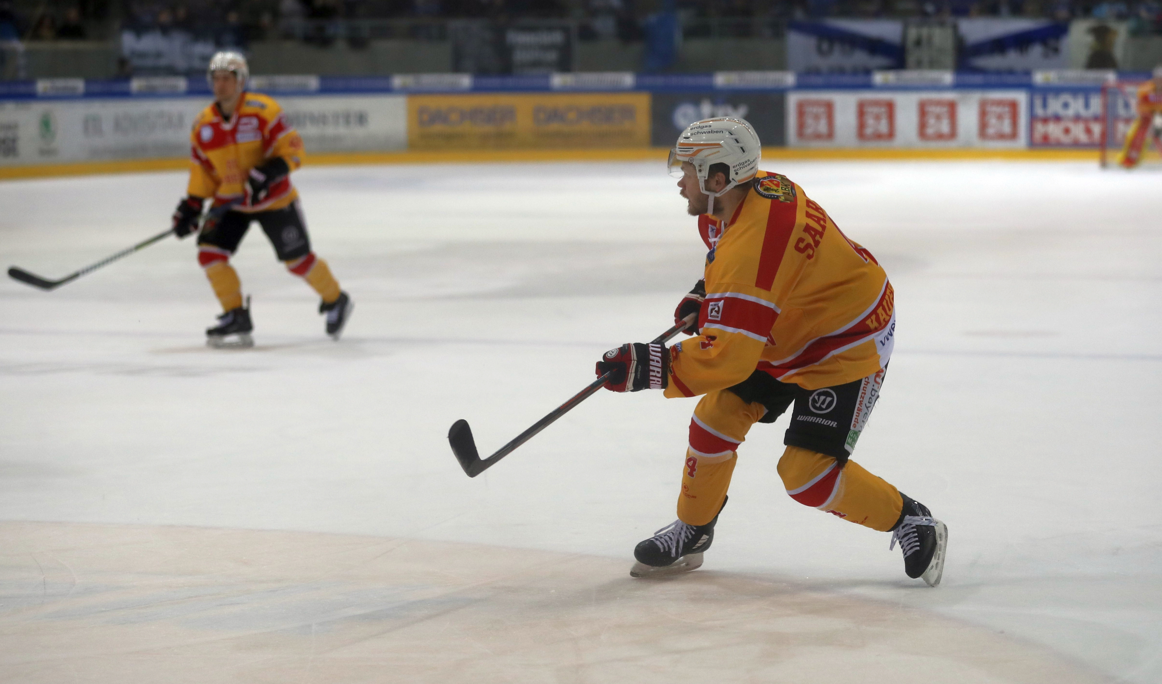 DEL2, Season 2018/19, Main round, 36th match day: Dresdner Eislöwen vs. ESV Kaufbeuren 6:3 (3:1; 1:2; 2:0)